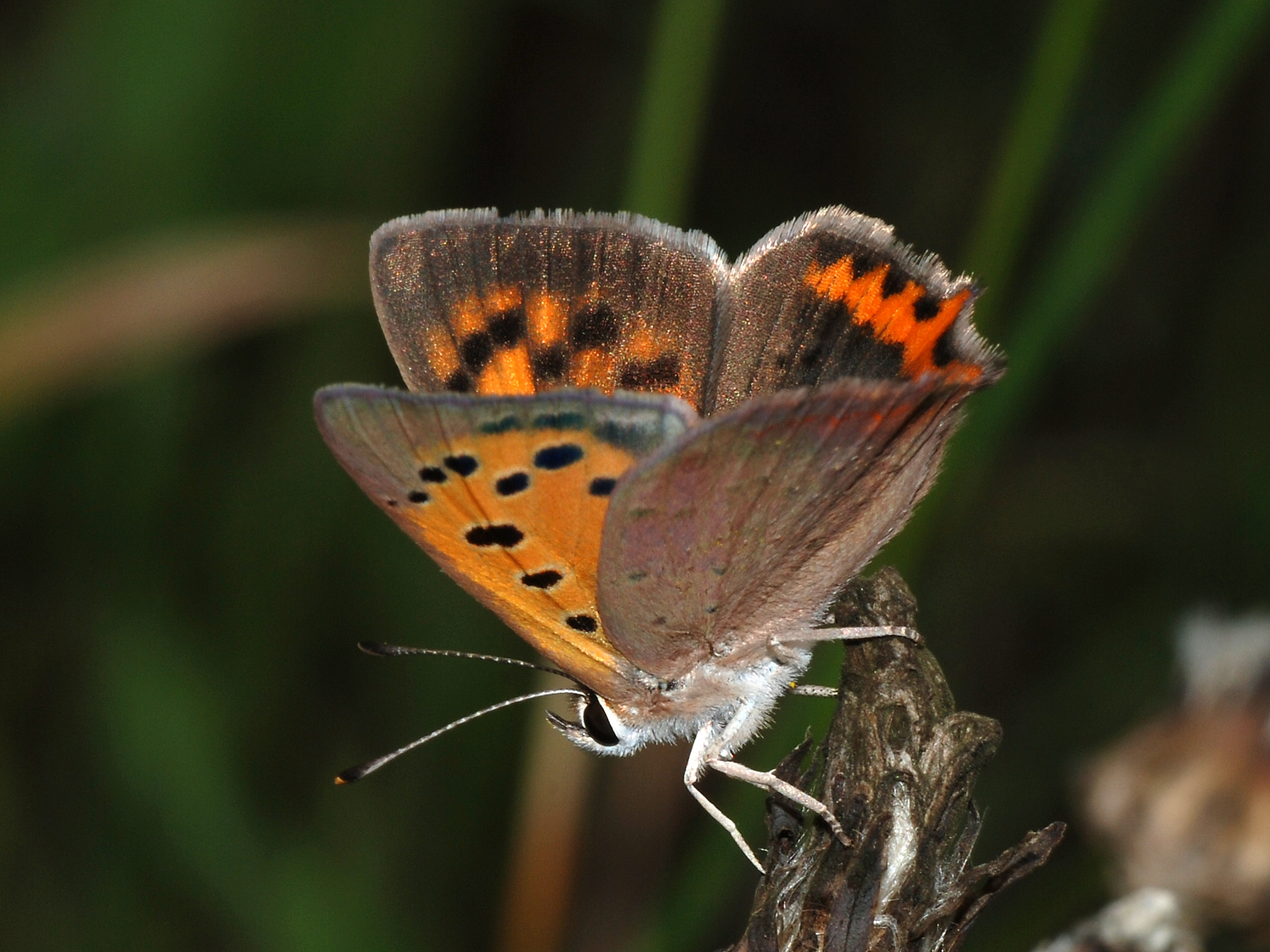 Lycaena phlaeas (Small Copper)